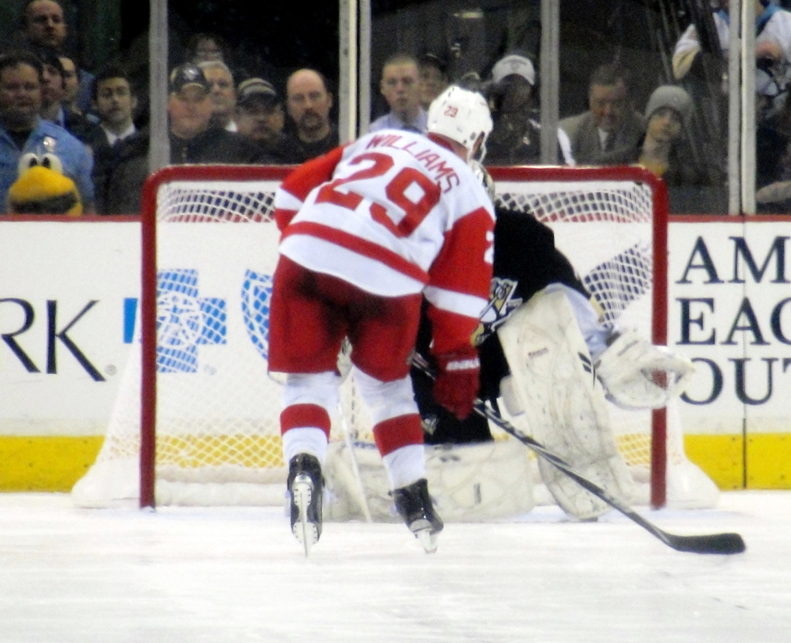 Detroit Red Wings forward Jason Williams skates in on Pittsburgh Penguins goaltender Marc-Andre Fleury during the shootout when the teams met January 31, 2010 at Mellon Arena in Pittsburgh, PA. Penguins mascot Iceburgh looks on from behind the glass.